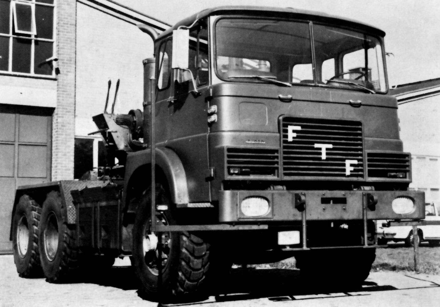 FTF heavy truck. Build by Floor Truck Factory The Netherlands for the Dutch Army as tanktransporter